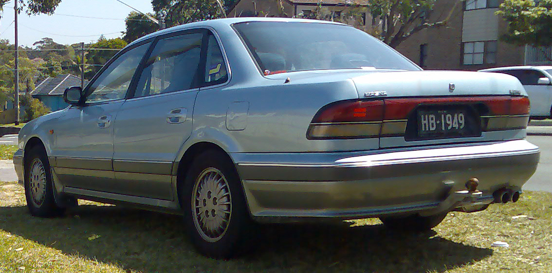 1991 Mitsubishi Magna (TR) Elite sedan. Photographed in Gymea, New South Wales, Australia.